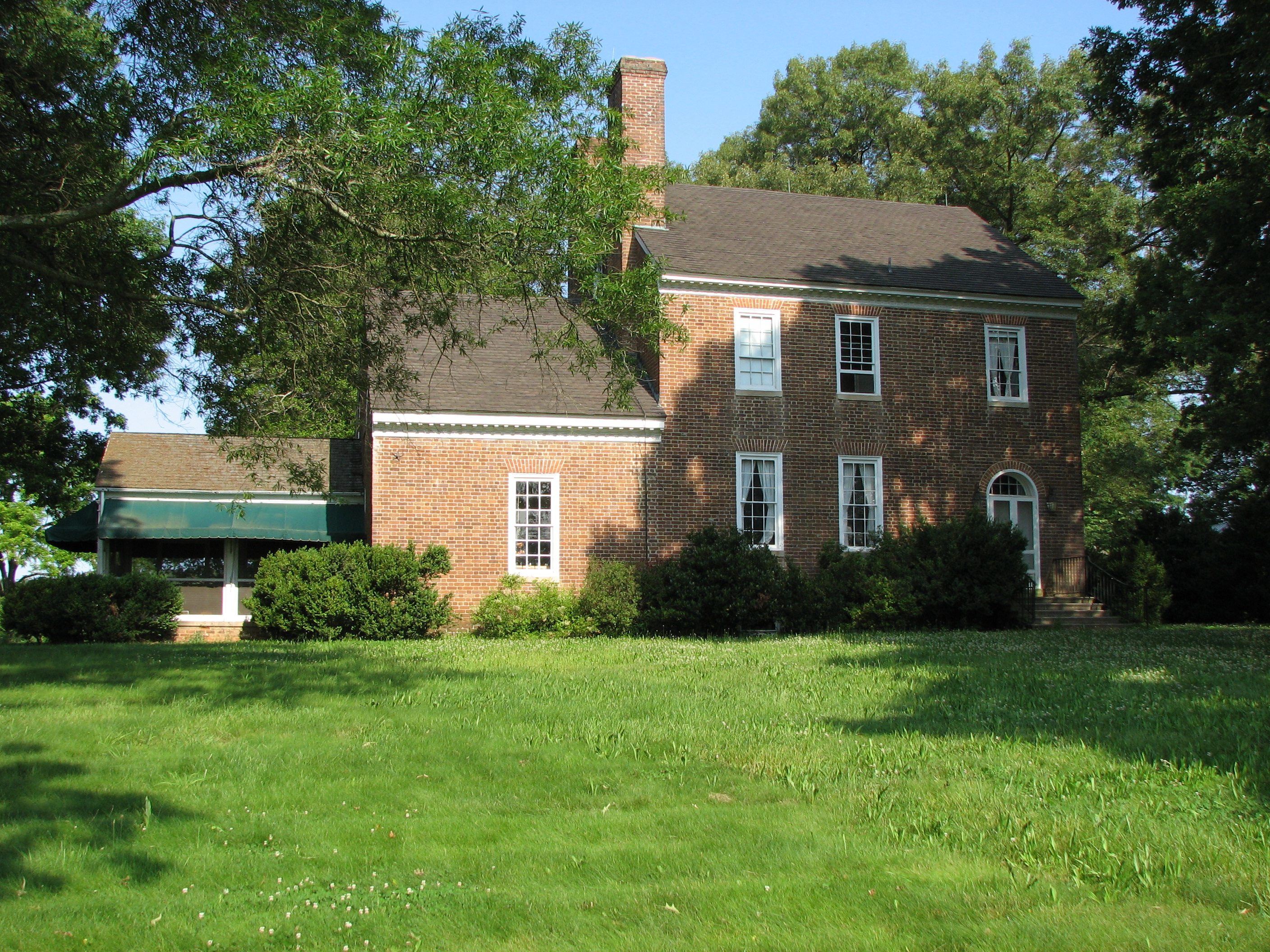 Historic home listed on the National Register of Historic Places in Spotsylvania County, Virginia